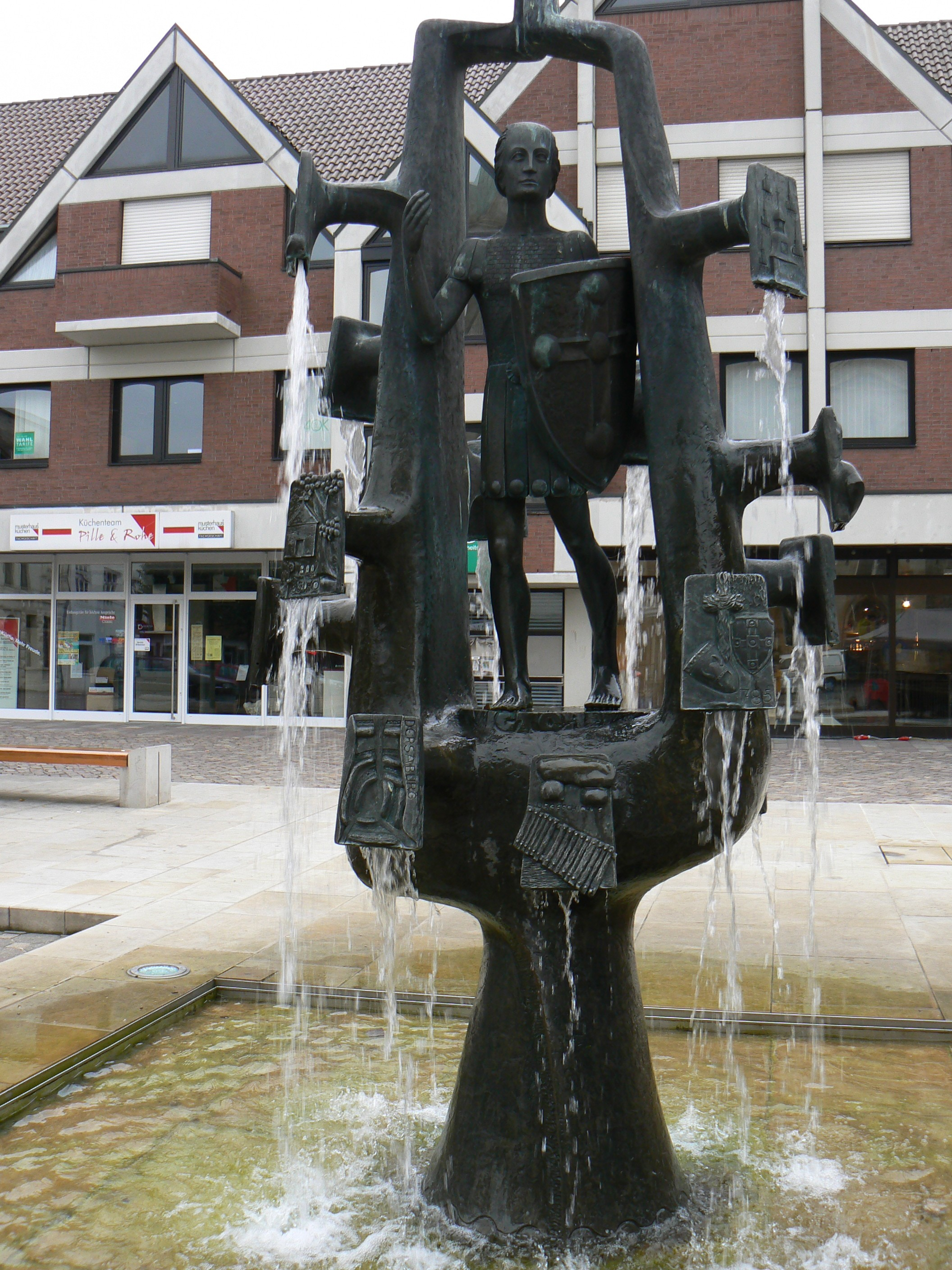 Fountain of St. Viktor in Damme, Lower Saxony, Germany